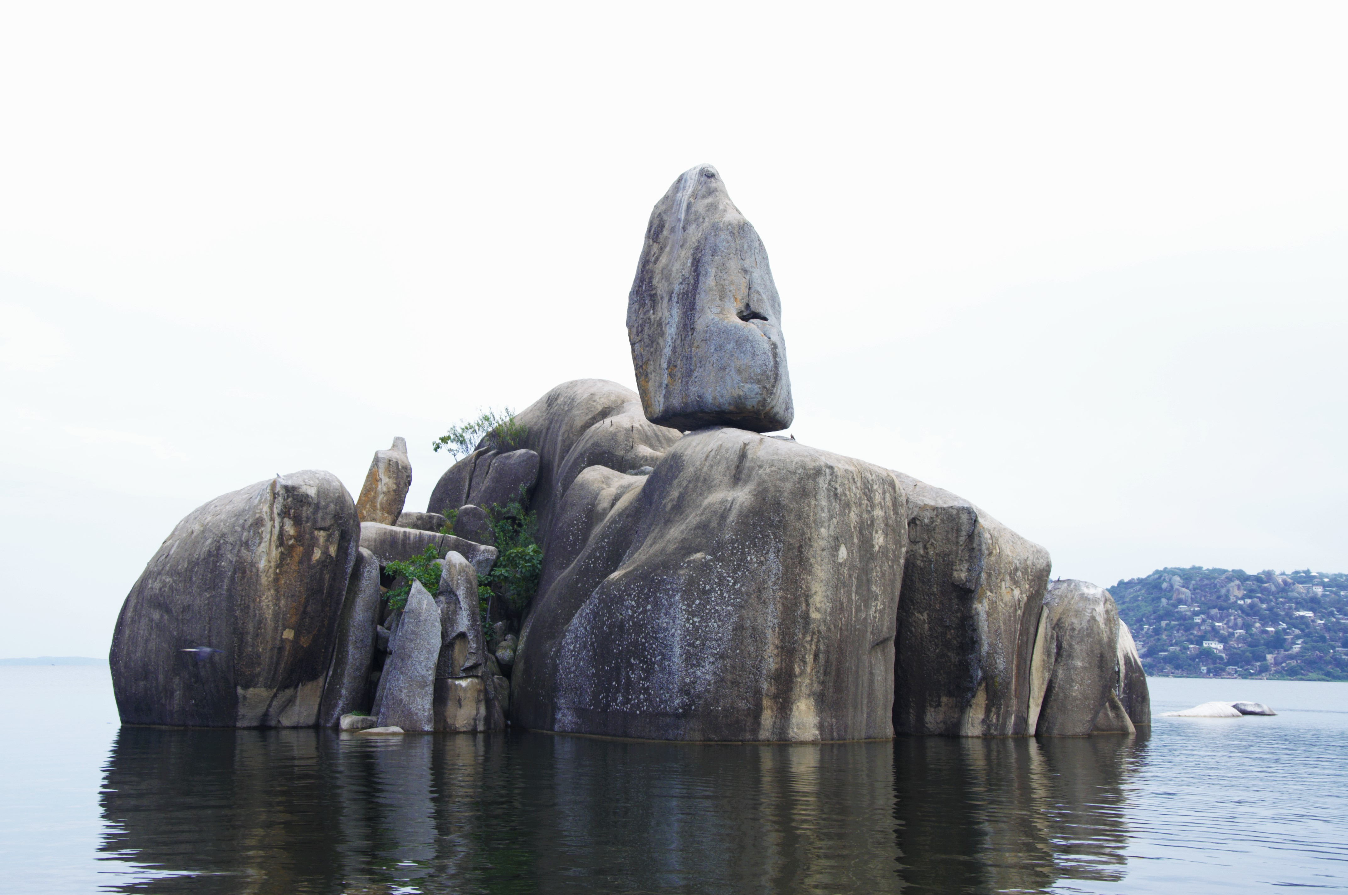 Bismarck Rock in the Lake Victoria nearby Mwanza city. This photo has been taken by Prof.Chen Hualin